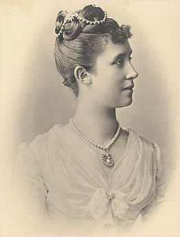 Hilda of Nassau (1864–1952), Grand Duchess of Baden and daughter of Adolf of Luxembourg.